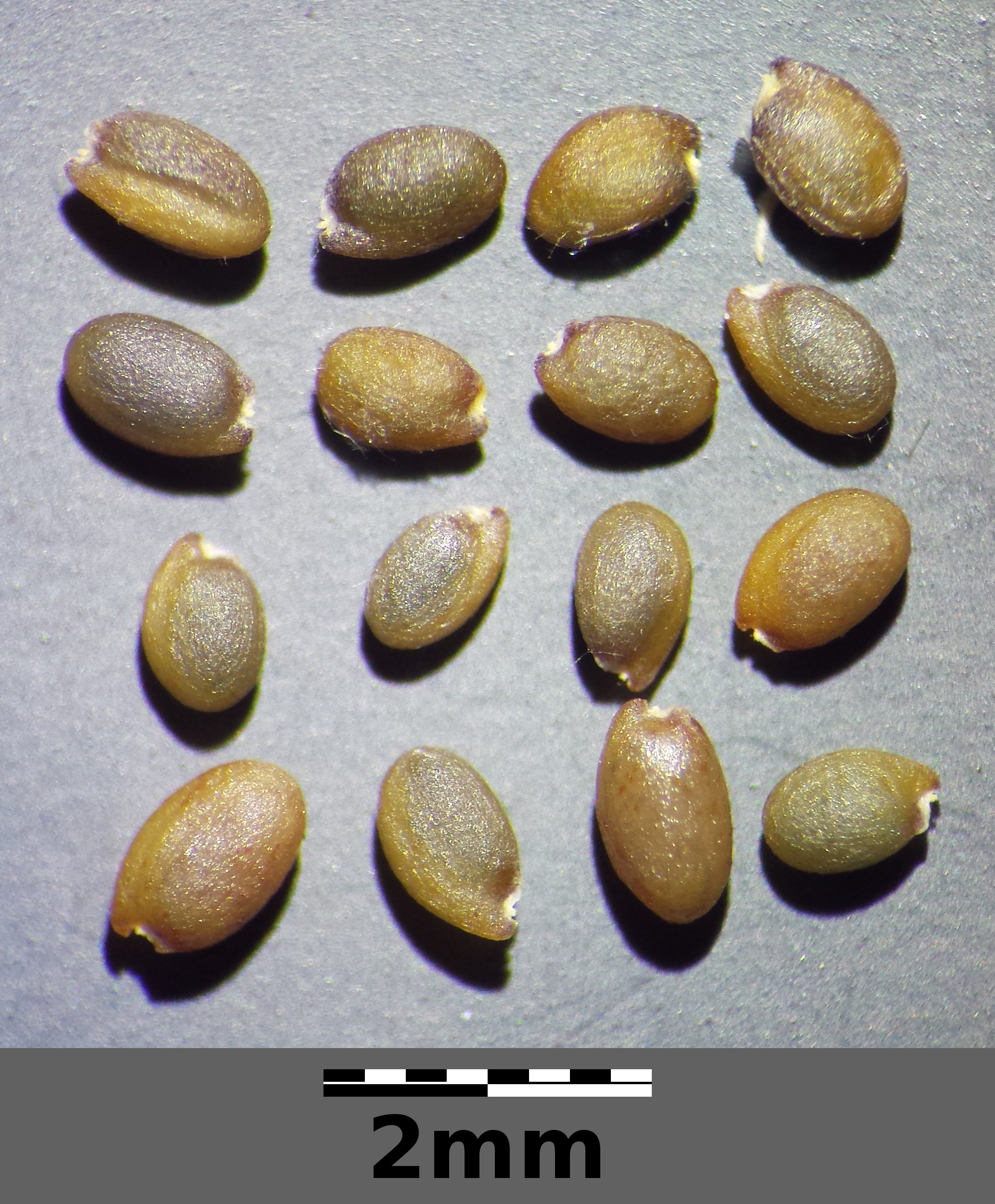 Seeds Taxon: Diplotaxis tenuifolia (sensu Fischer et al. EfÖLS 2008 ISBN 978-3-85474-187-9) Location: Neue Donau, Vienna-Floridsdorf - ca. 160 m a.s.l. Habitat: ruderal meadows